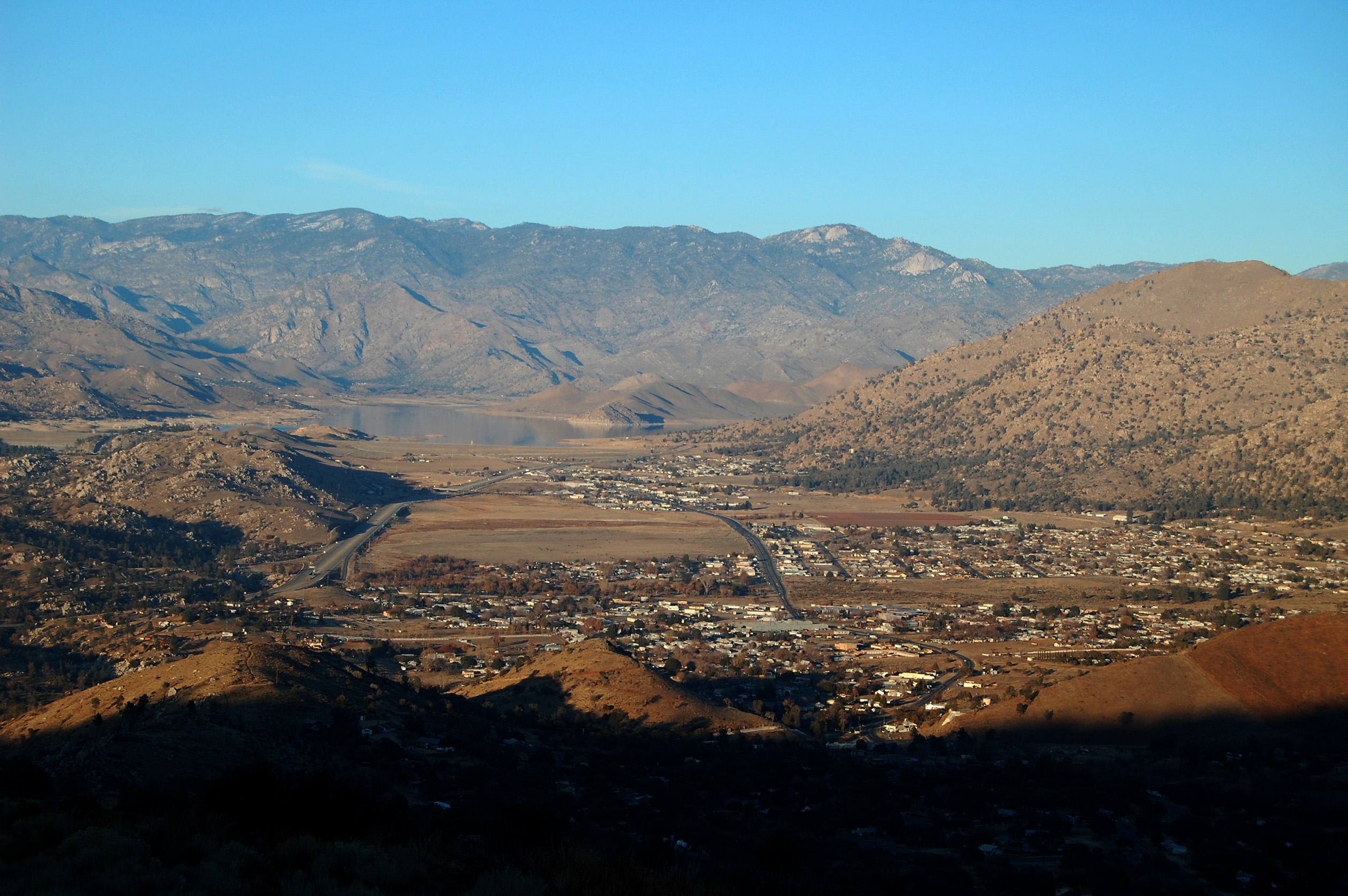 Bodfish and Lake Isabella in the the Southern Sierra Nevada, California This is the view looking northeast in late afternoon. Lake Isabella, the reservoir, is center. The road on the left side of the image is SR178. The road at center or right is Lake Isabella Boulevard, which connects the communities of Bodfish and Lake Isabella. About this image: Was captured using film or digital camera equipment. May lack artistic merit but documents the existence of the subject(s). May have had elements including colors, composition, gamma, exposure, or size adjusted using camera-, lens-, scanner-settings or by applying image editing software. May have had aberrations, flare, or reflections removed in order that the subject of the image is more clearly visible. Is intended to be representative of the view of the subject that would be perceived by a human eye.